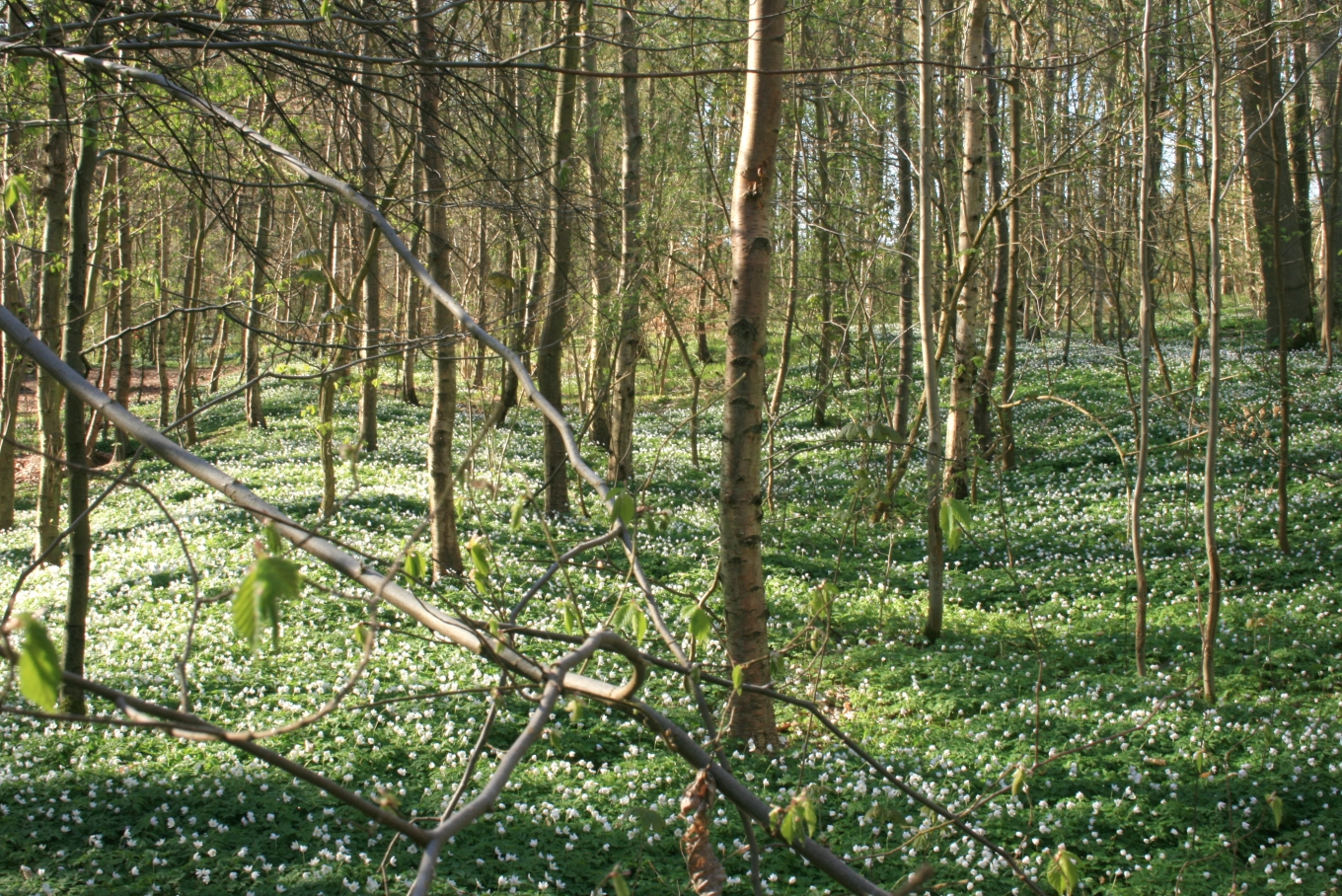 Fields from the Danish Middle ages in the Wilhelmsborg Forest, south of Århus, Denmark. The ridge of one field starts at the lower, right corner of the picture, whereas the bottom of the intervening hollow starts at the lower, left corner of the picture.